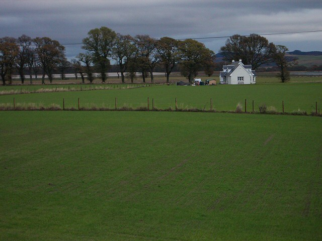 Newlands, near Cairnie Pier. Surrounded by the flat drained fields of the Carse of Gowrie, Newlands is on the tree-lined avenue running between St Madoes and Cairnie Pier. Looking east.